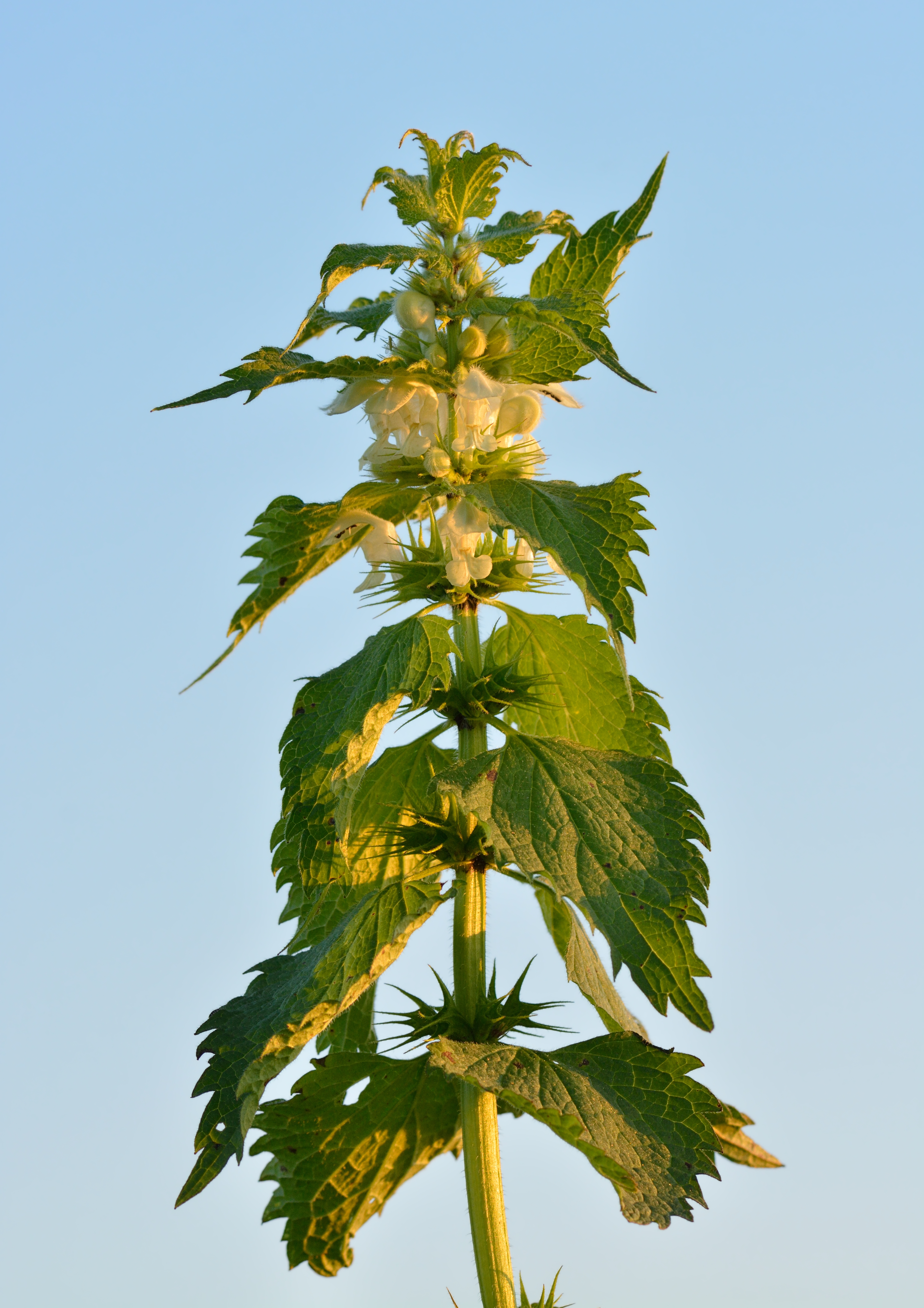 White nettle (Lamium album). Keila, Northwestern Estonia.